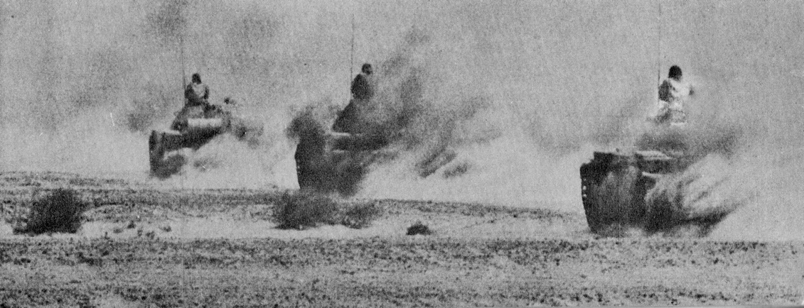 Egyptian tanks on the move in the Sinai desert, during the Yom Kippur War.